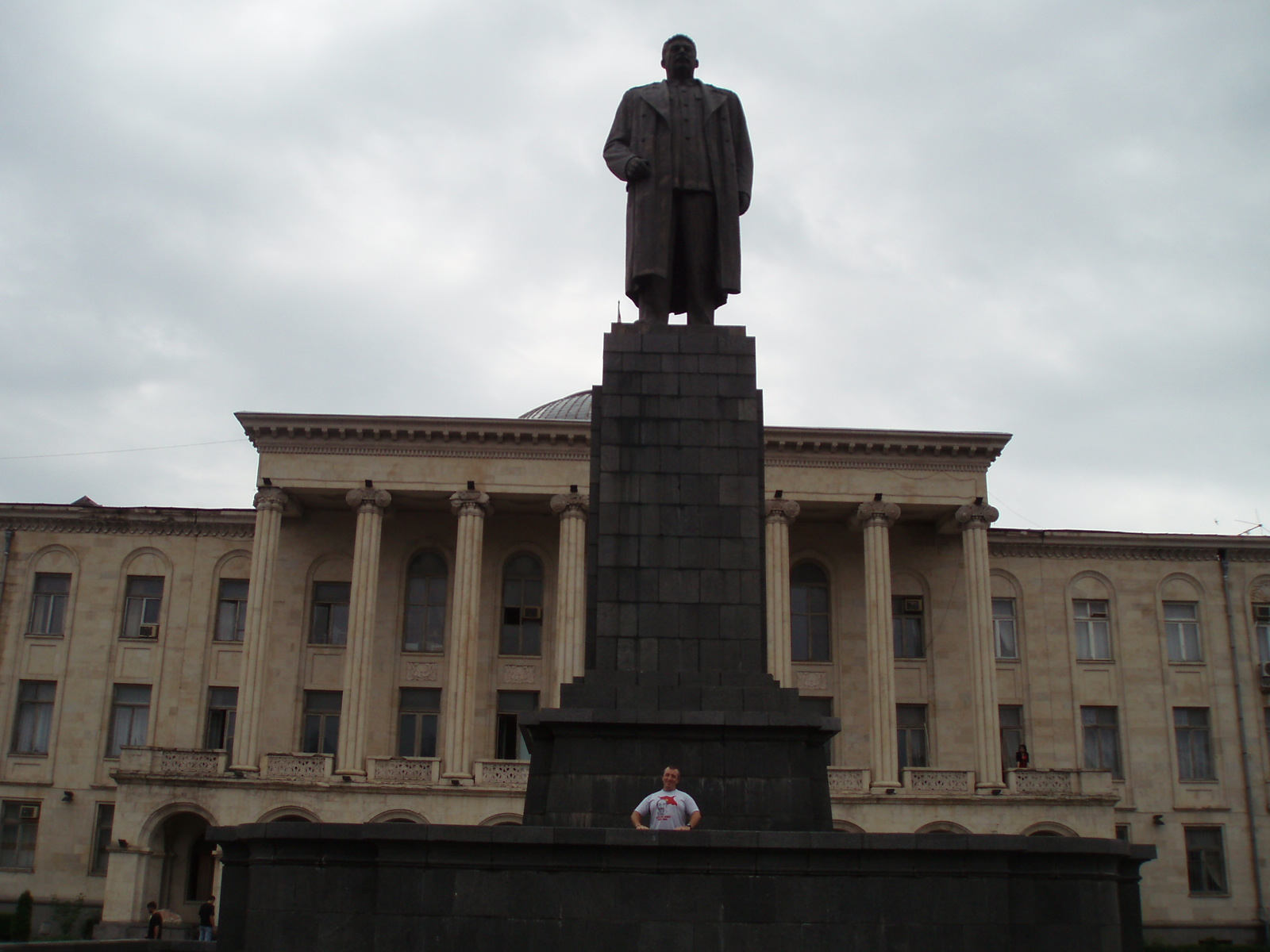 Photo from the set "Armenia Georgia 2007" by David Holt.